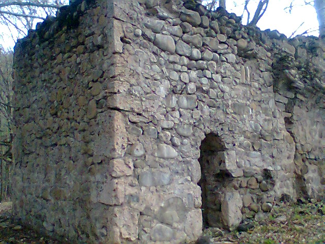 "Adgilis Deda" (Genius loci) basilica/shrine in the Kakheti region, Georgia